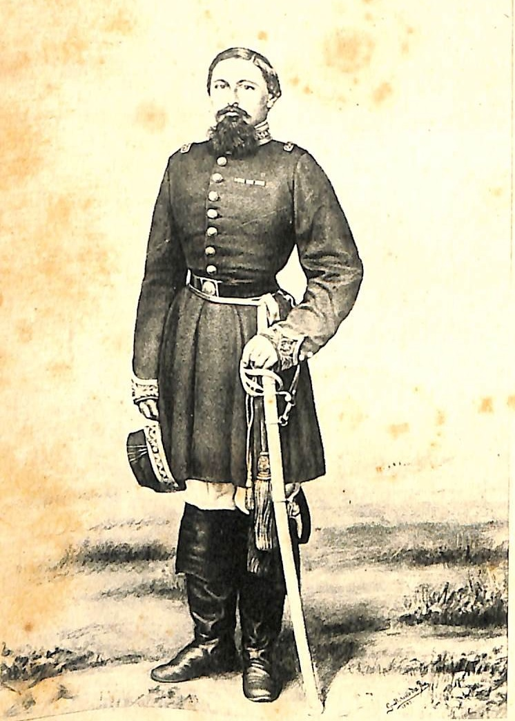 José Eduvigis Díaz, Paraguayan militar hero